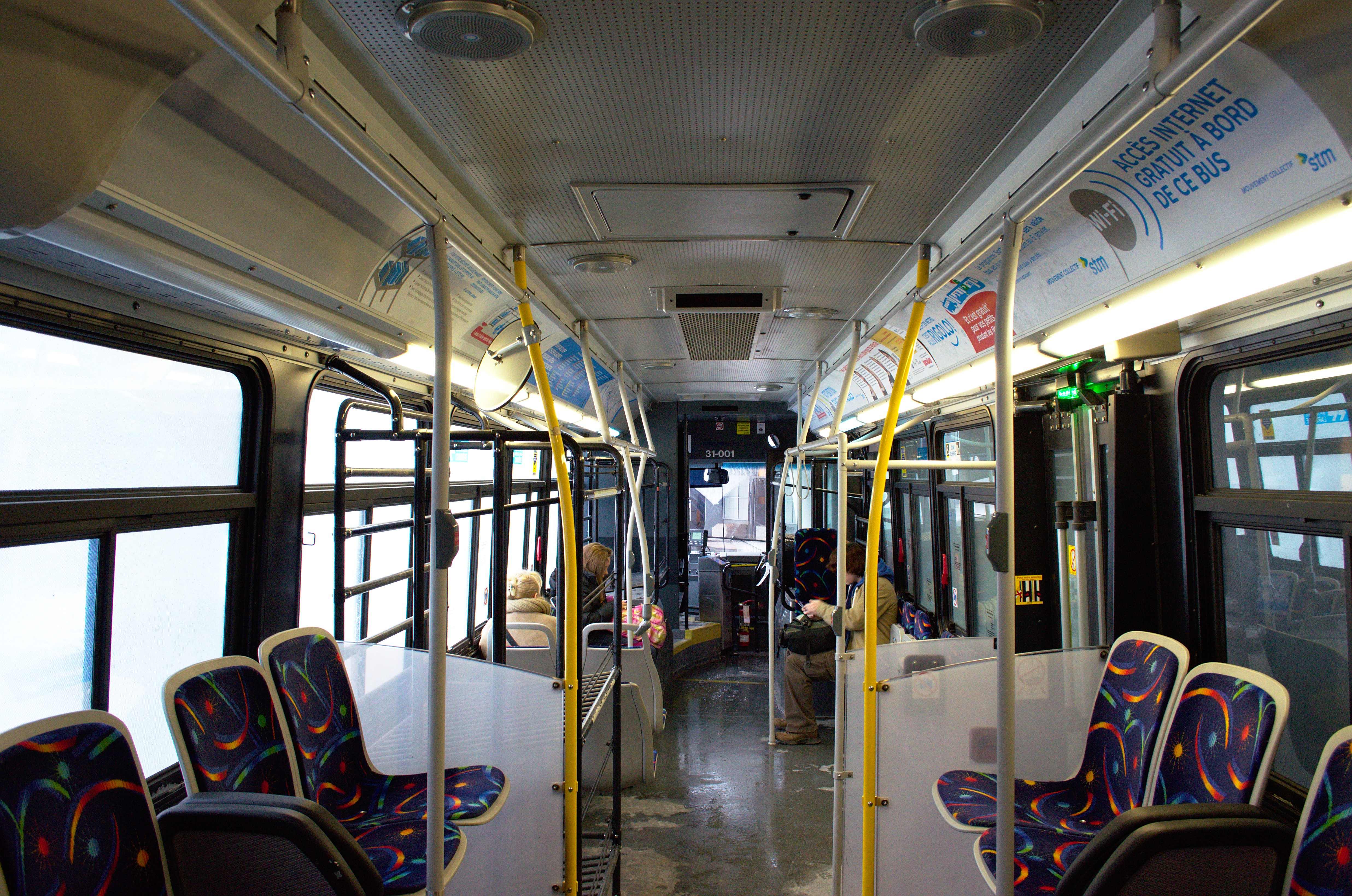 interior of the 747 express bus